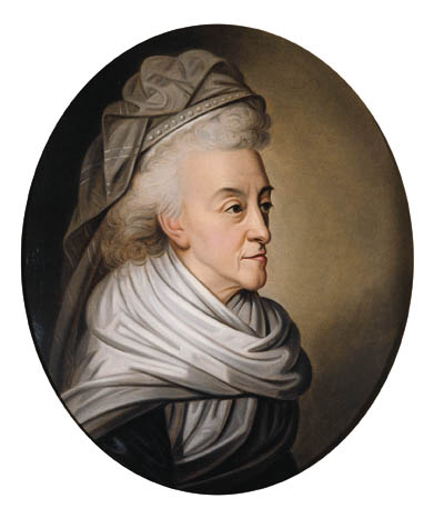 Portrait of Ulrike Sophie of Mecklenburg; copy of a painting by Georg David Matthieu by Gaston Lenthe; the original (which was in Klein Trebbow) is lost